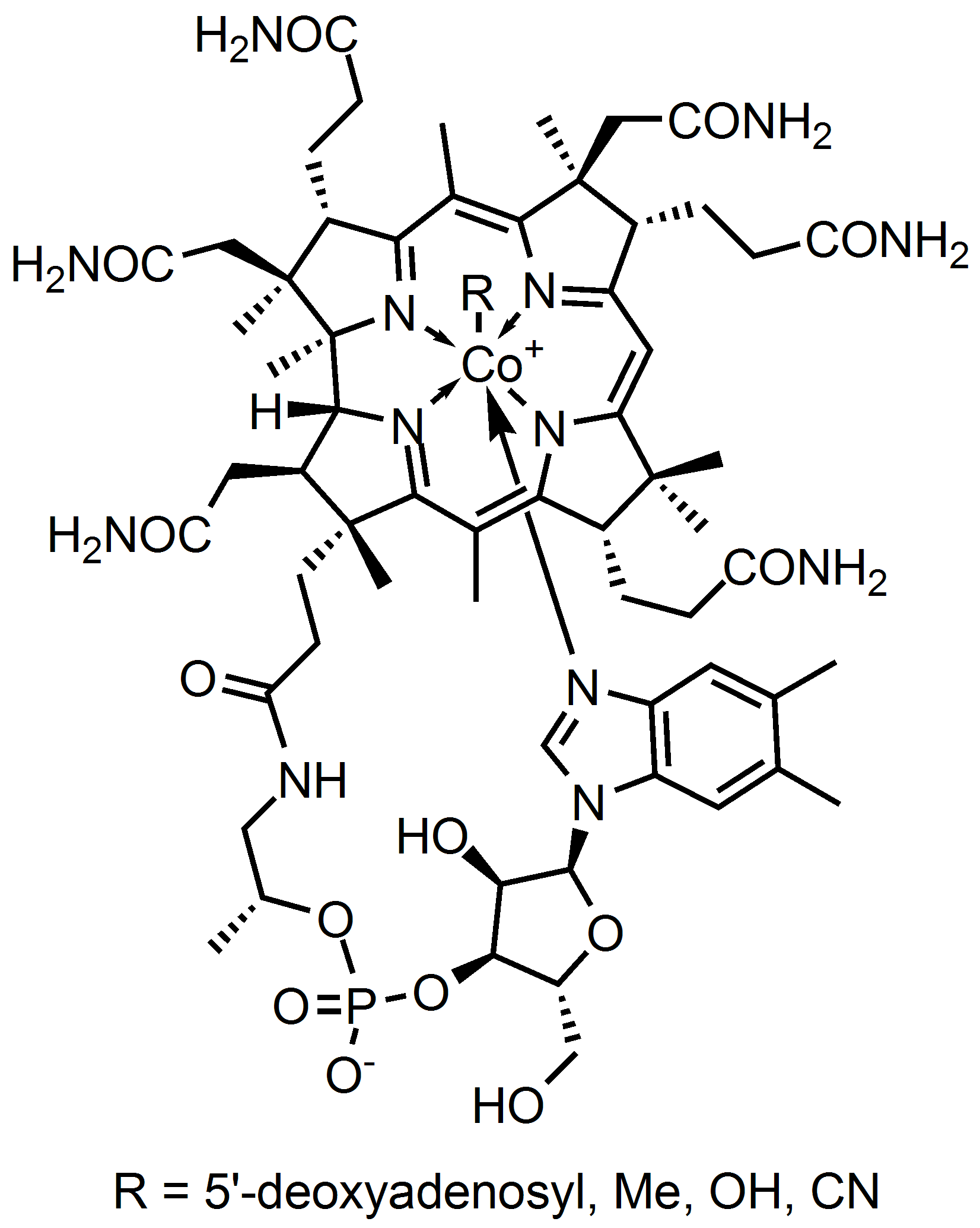 Chemical structure of vitamin B12.